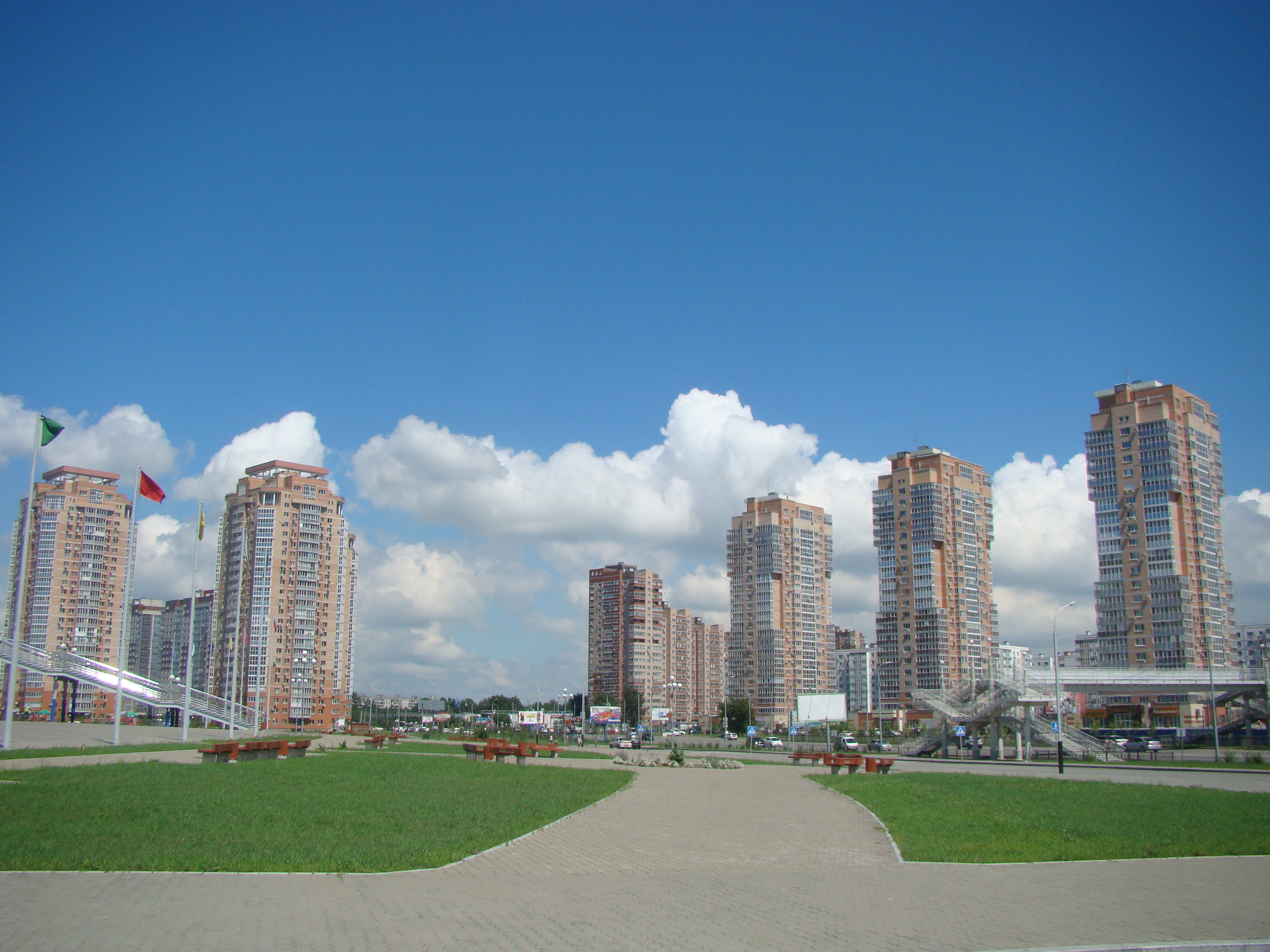 Industrialny City District